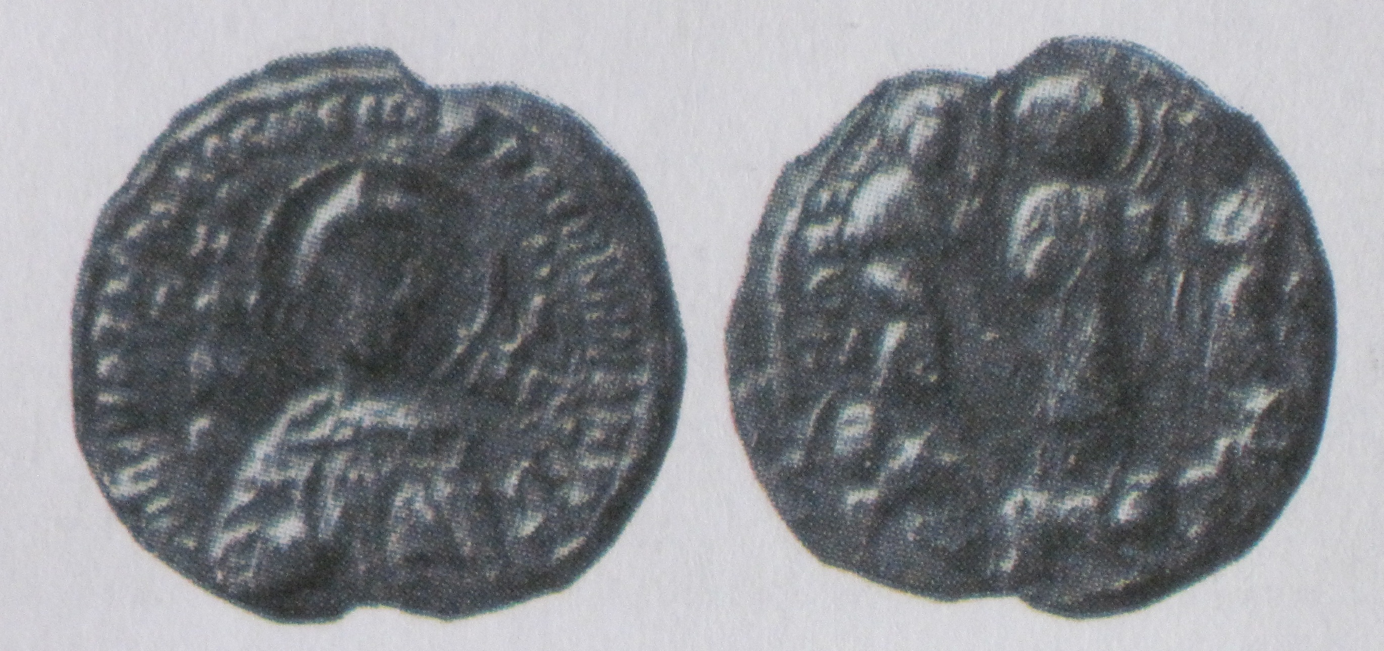 The seal of Euphrosyne of Polatsk, 12th century